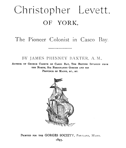 "Christopher Levett of York: The Pioneer Colonist in Casco Bay." Title page of biography of English explorer Capt. Christopher Levett, written by Maine historian James Phinney Baxter, and published by the Gorges Society, Portland, Maine, in 1893.